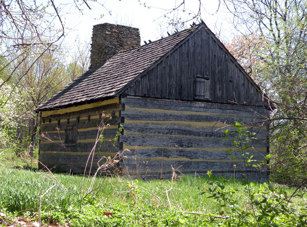 Neill Log House located at East Circuit Road near Serpentine Drive in Schenley Park in the Squirrel Hill South neighborhood of Pittsburgh, Pennsylvania, on April 10, 2010. The log house was built circa 1787 (or before) and once belonged to the family of Robert Neill, and later to Col. James O'Hara and his granddaughter Mary Schenley (for whom the park is named). The house was in use during a time when Indian raids in the area occasionally occurred. These days it sits preserved in Schenley Park with a fence around it (though it is open to the public periodically), and it is on the List of City of Pittsburgh historic designations as well as the List of Pittsburgh History and Landmarks Foundation Historic Landmarks. The log house is also featured on the cover of A Guidebook To Historic Western Pennsylvania by Helene Smith and George Swetnam (the original 1976 version and the Revised 1991 version).